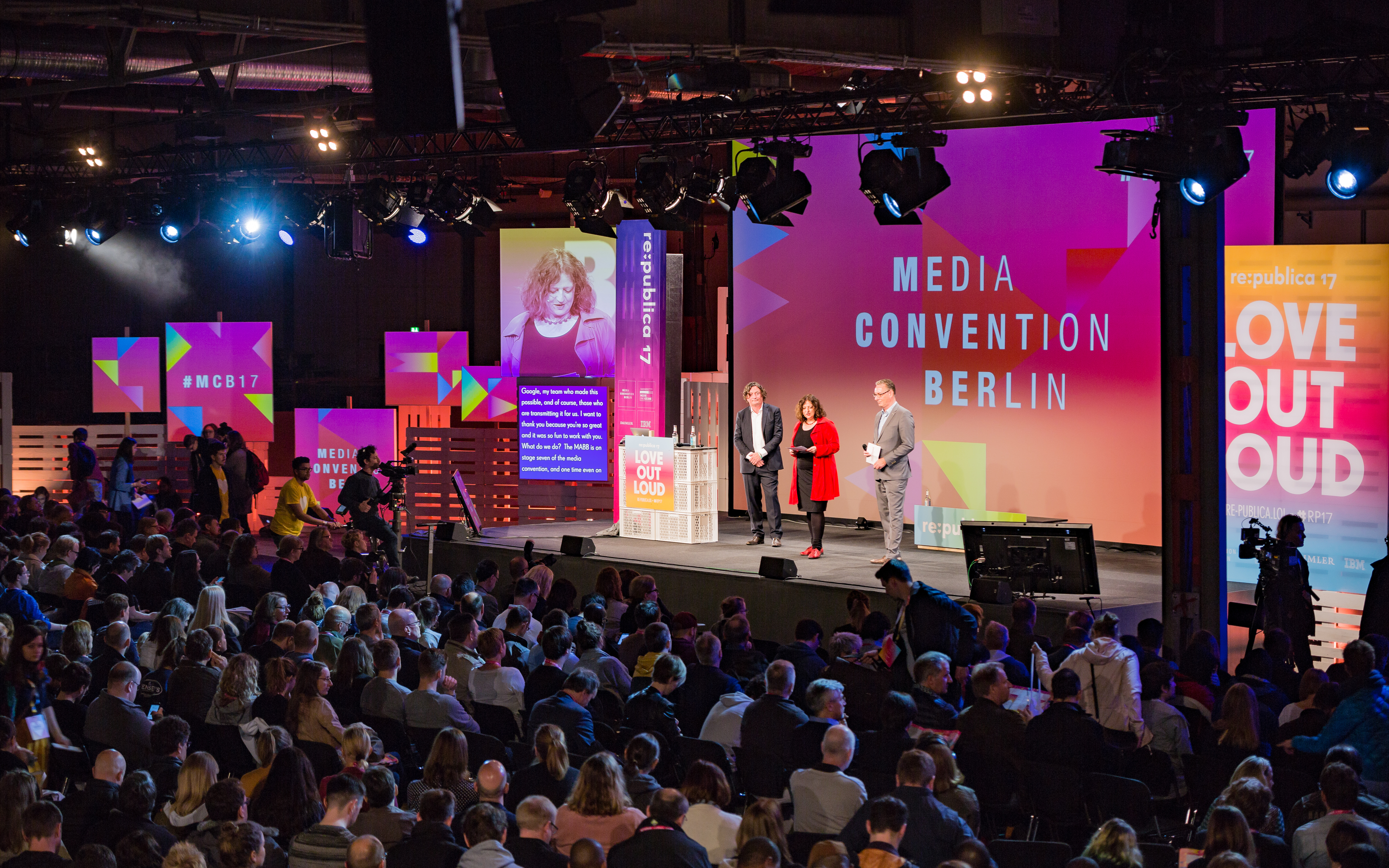 Opening session of the Media Convention Berlin at the Re:publica 17